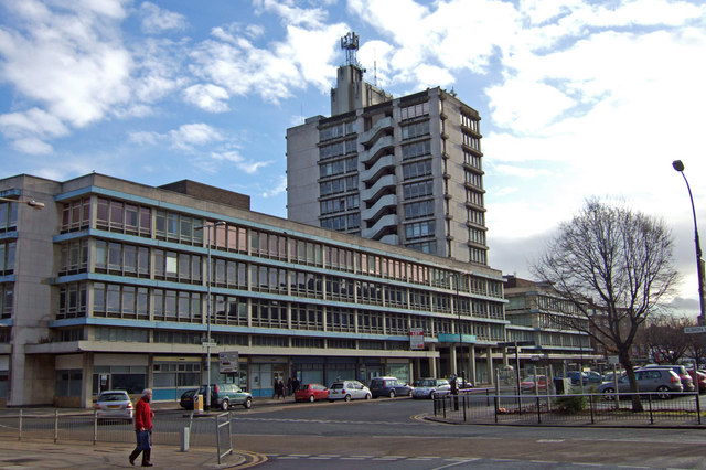 Kingston House, Bond Street, Hull This large 1960's block stands on the corner of Bond Street and Albion Street. It is starting to look very frayed at the edges.